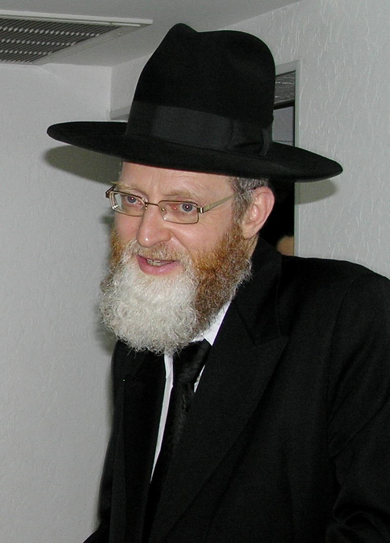 Rabbi Asher Arieli speaking with a student.